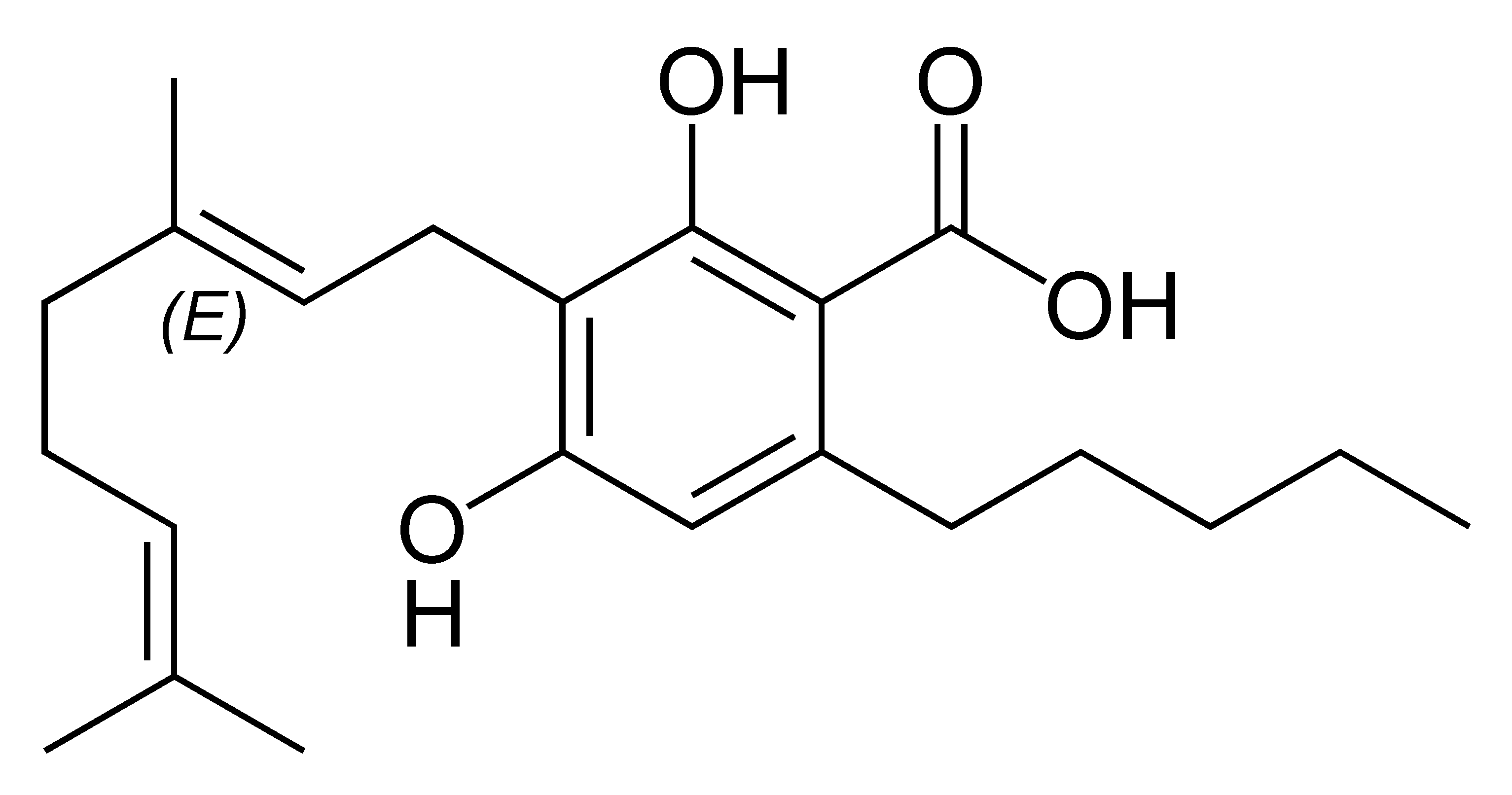 Description: chemical structure of cannabigerolic acid A Author: Cacycle Date of creation: 8 January 2006 (UTC) Source: selfmade Copyright: GNU Free Documentation License (GFDL) Creative Commons License (attribution, sharealike, 2.5) (cc-by-sa-2.5) Comments: high-resolution black/white PNG made with ChemDraw and IrfanView — see my Wikipedia user talk page for a detailed description. Please drop me a note if you want to change the image or need the ChemDraw .cdx source file.